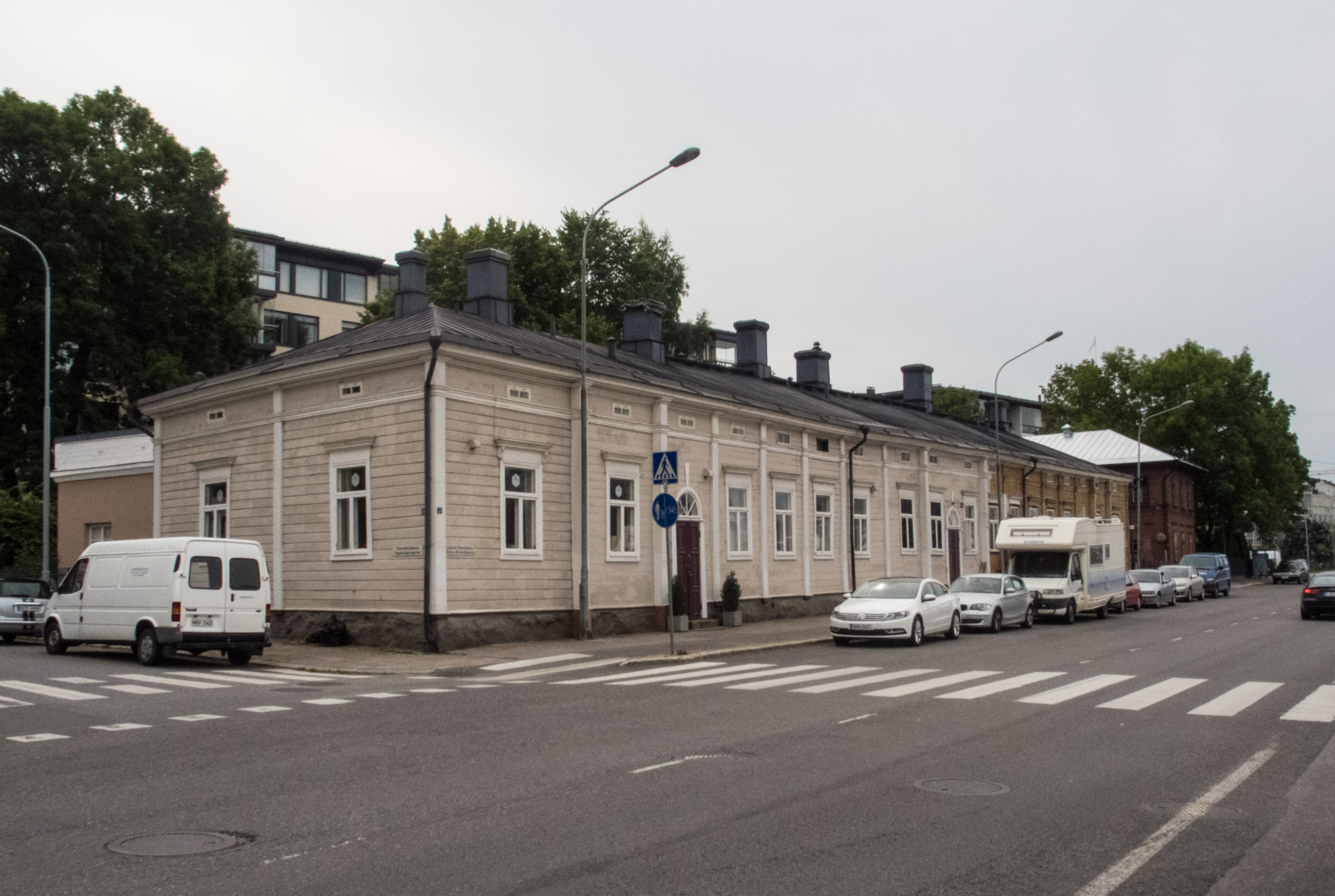 Shipyard owner William Crichton's former residence, located by the Aura river, address Itäinen Rantakatu 56, Turku, Finland (August 2015, paint being stripped off the facade on the right). The house was built in 1847 for the contemporary factory owners D. Cowie and A. T. Eriksson. Crichton became owner of the company in 1862 and he lived in the house until his death 1889. His family moved out in 1890, after which the building served partly as a shipyard office.